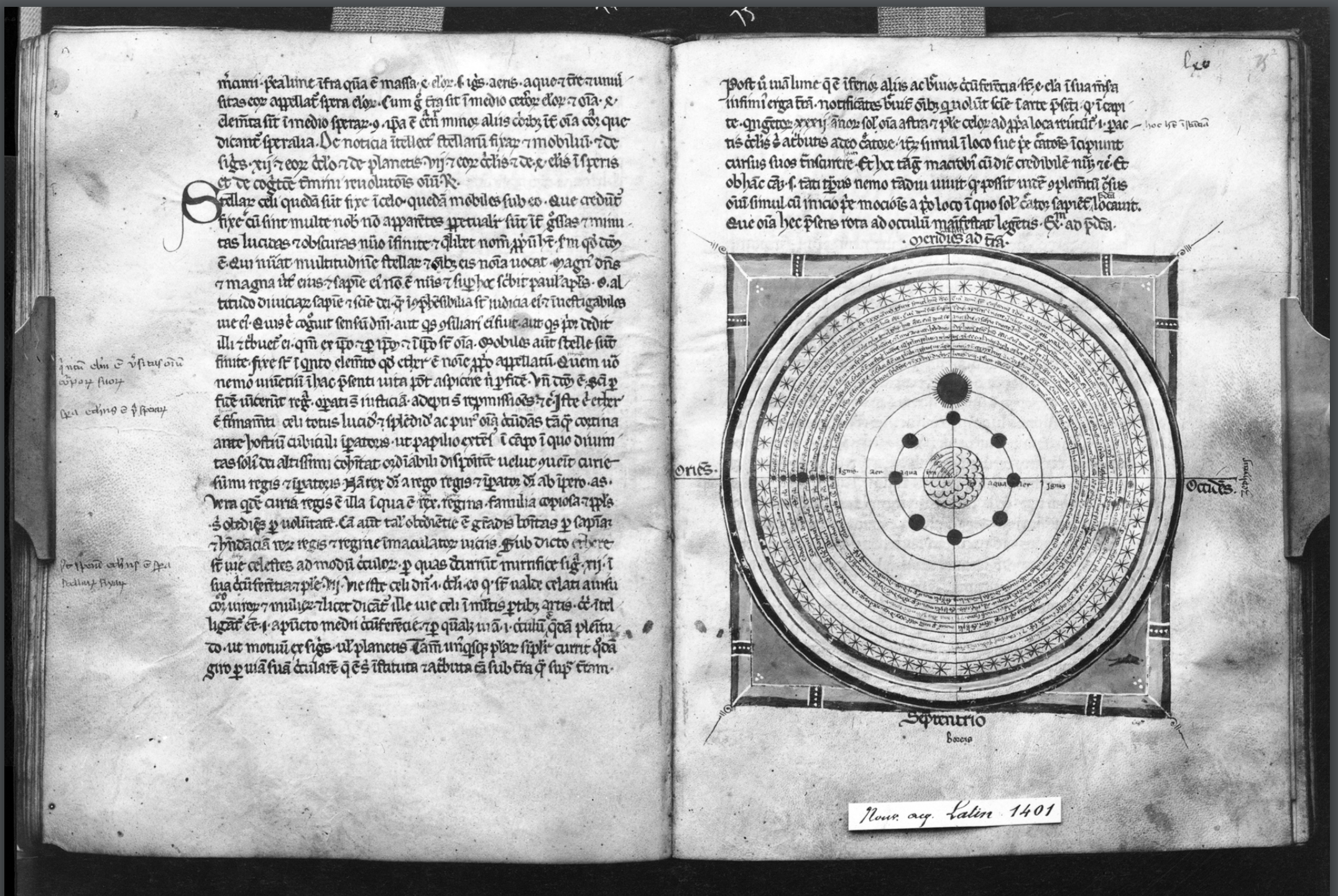 1279, Liber introductorius, Paris, Nouv. acq. lat. 1401, fol. 64v-65r.png